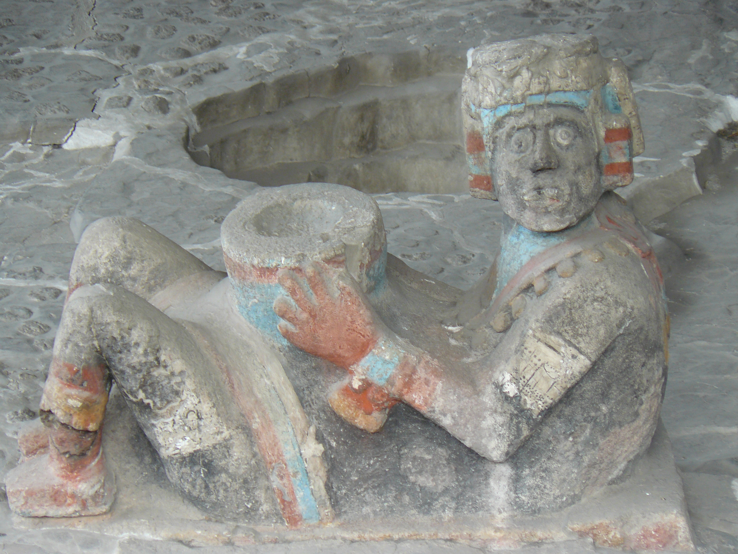 Chac Mool taken at the Great Temple of Mexico City